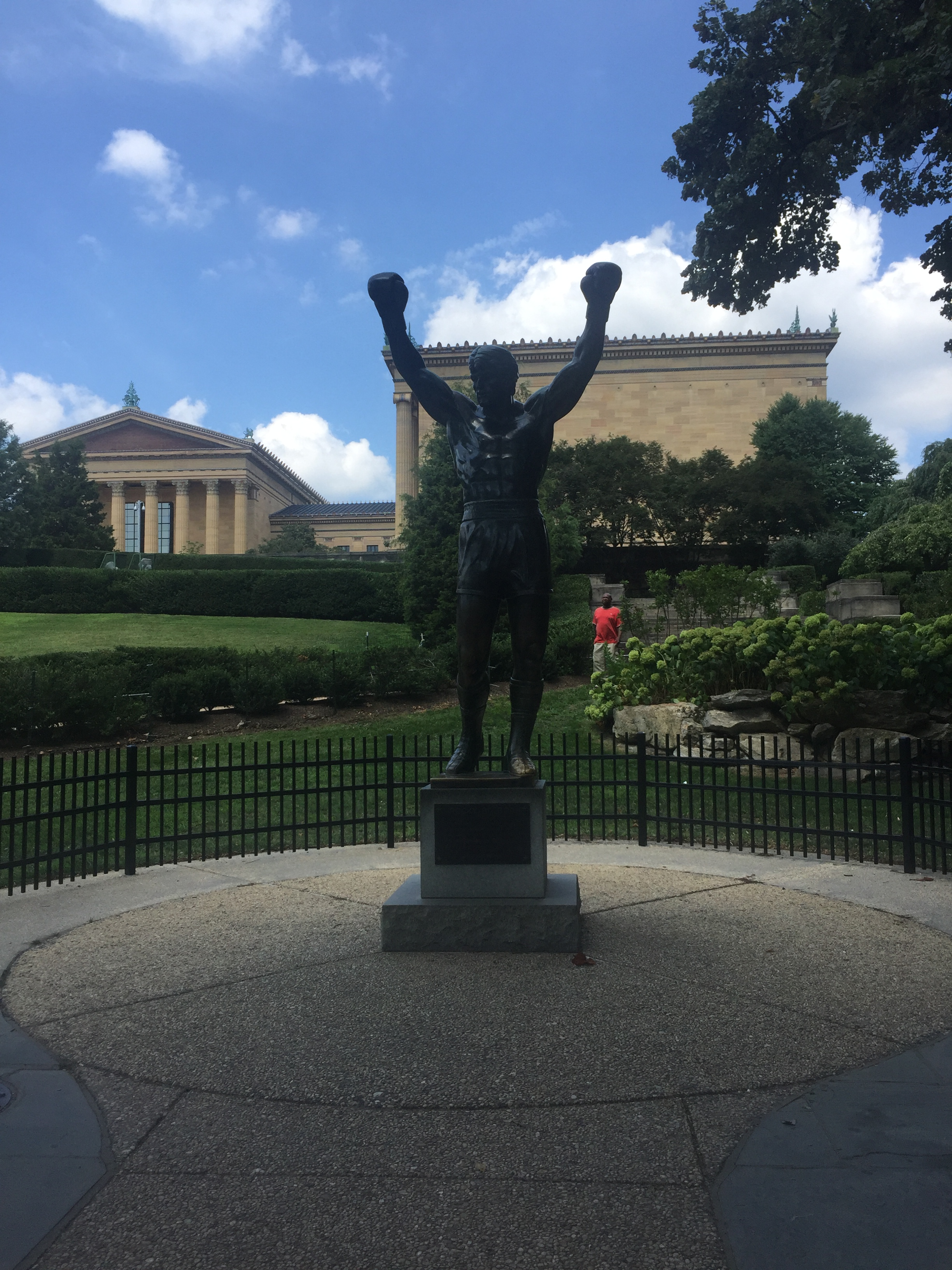 Rocky Balboa Statue in Philadelphia